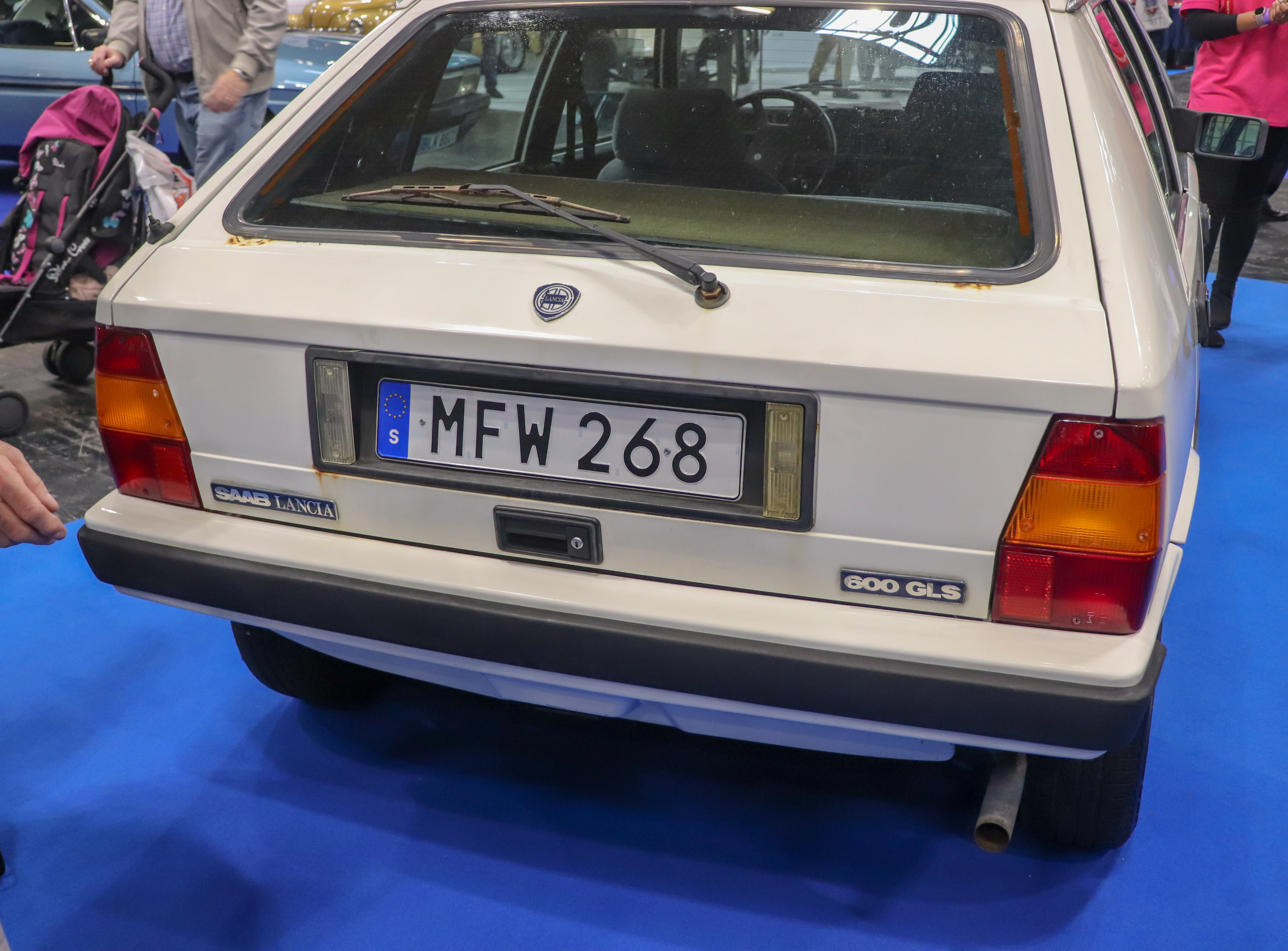 1986 Saab-Lancia 600 GLS Rear Taken at the NEC Classic Motor Show 2018